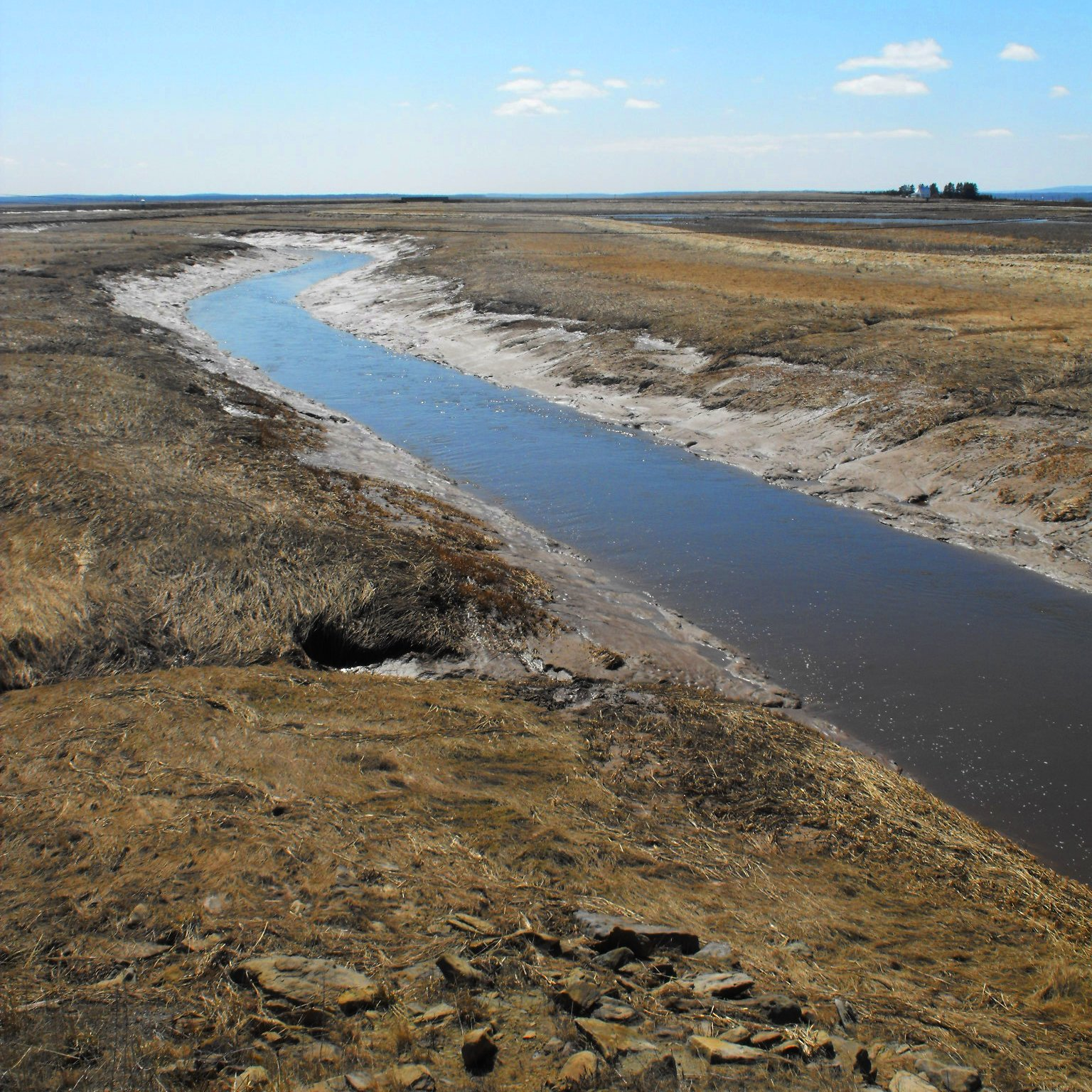 View looking downriver at the Missiguash during low tide. The river forms part of the boundary between New Brunswick and Nova Scotia, Canada. In the photo, Nova Scotia is on left side of the river and New Brunswick on the right. In the background is the National Historic Site of Tonges Island, former home of the Seigneur Michel de la Valliere who in 1676 had a manor house there. The island may be identified by the copse of trees. A modern home exists there now.